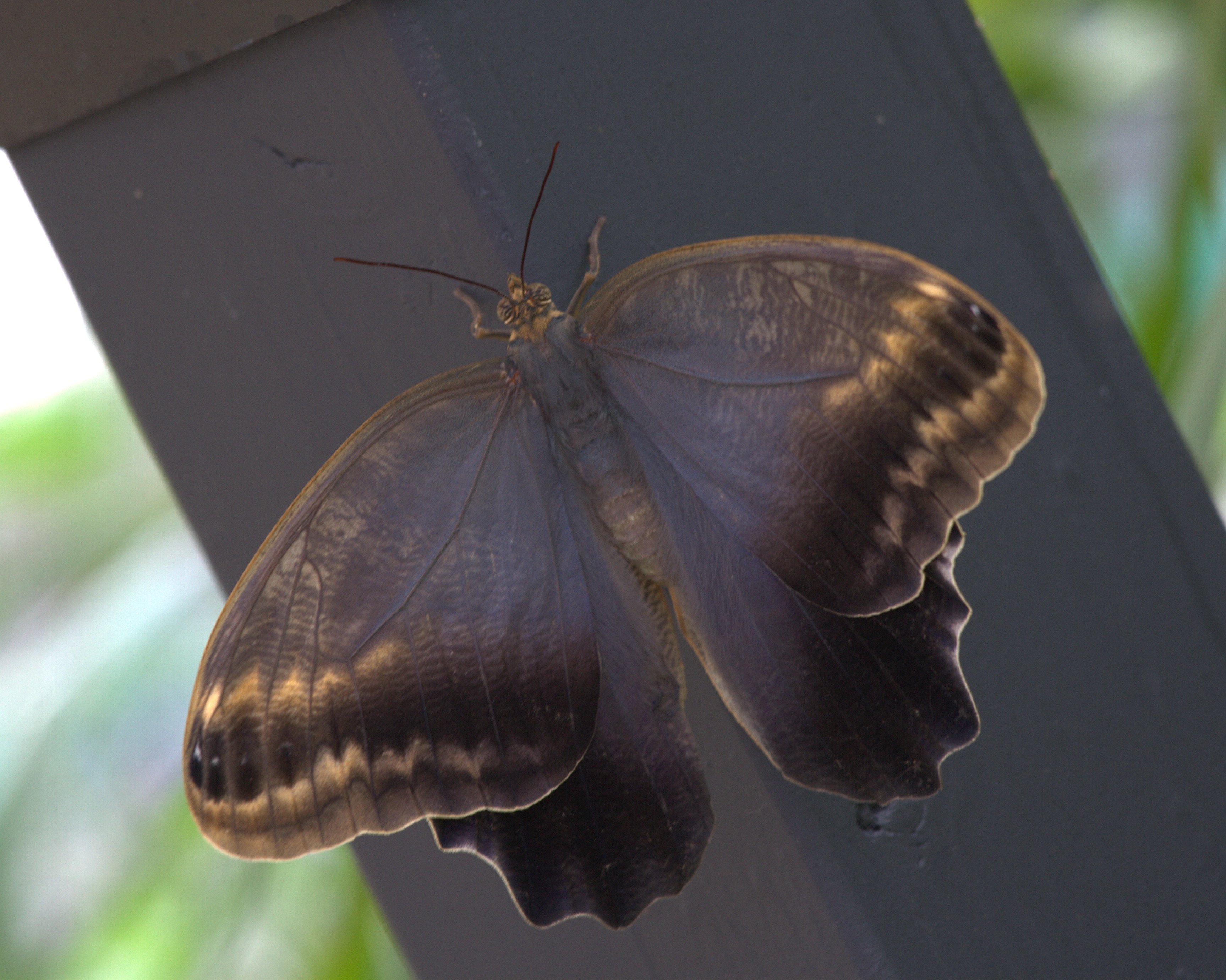 Caligo memnon - dorsal view.